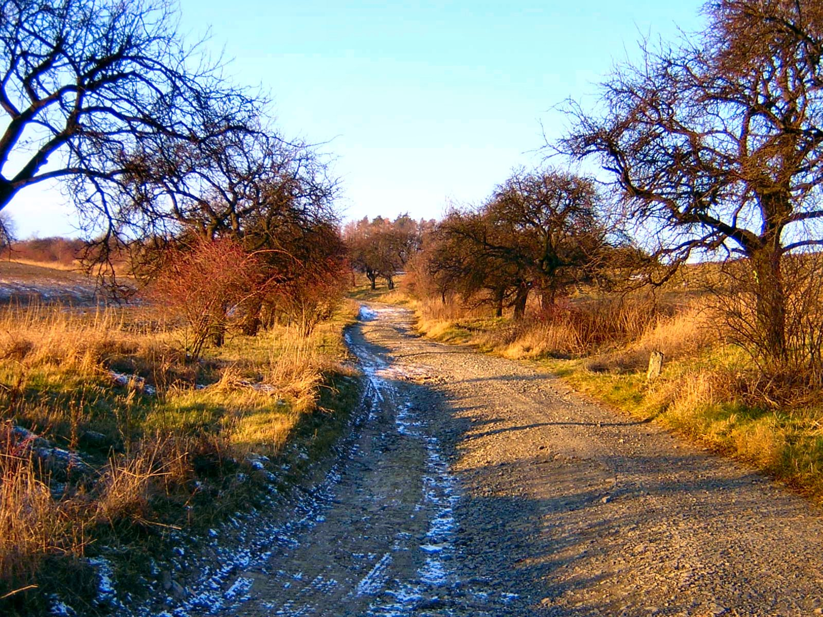 Older road from Fulnek to Vrchy, Czechia.